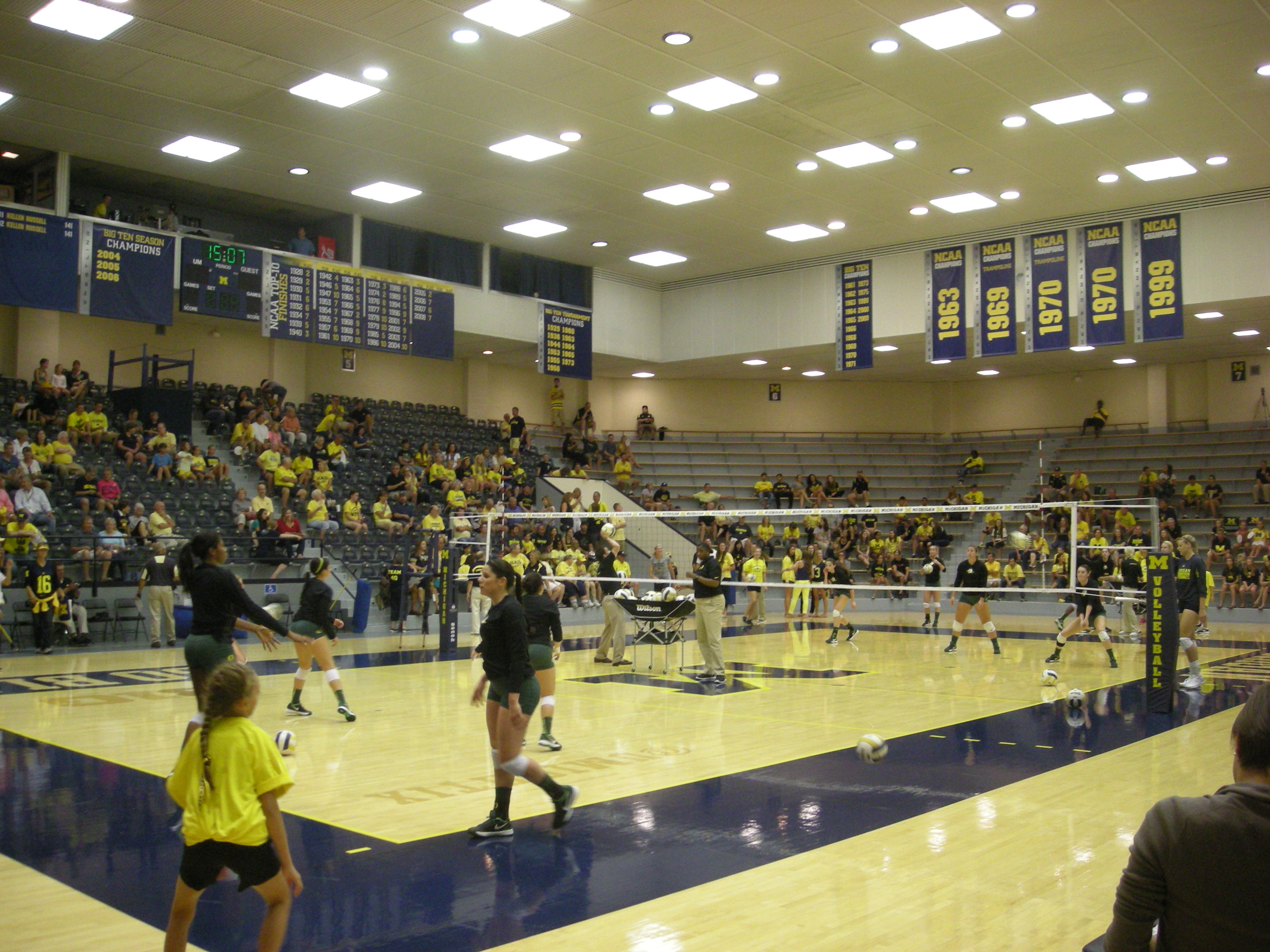 Oregon warming up before the Oregon Ducks vs. Michigan Wolverines women's volleyball match at Cliff Keen Arena in Ann Arbor, Michigan (United States). Michigan won 3–0 (25–22, 25–22, 25–21).